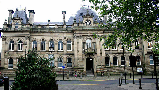 Town Hall , North St. , Wolverhampton